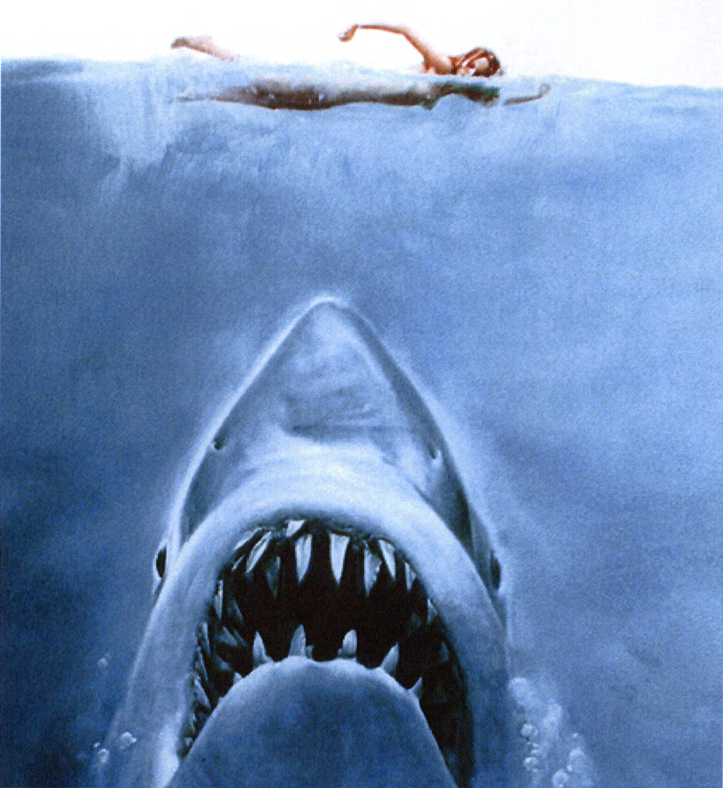 Image from cover of Jaws book